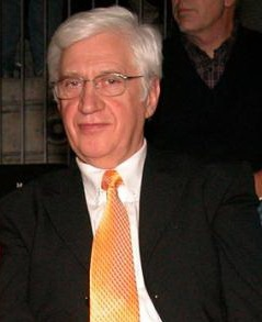 I have published this image as author under the Creative-Commons-License CC-by-sa 4.0. This means that free usage outside of Wikimedia projects under the following terms of licence is possible: 1.1 The image is credited with “Nicola, Wikimedia Commons, CC-by-sa 4.0” If this is not possible due to shortage of space, please contact me first. 1.2 If possible, weblinks to the original image and to the licence would be great: “Nicola Wikimedia Commons, CC-by-sa 4.0” I would be happy to receive a specimen copy or the URL of the website where the image is used. Please write an email to , if you need my postal address for sending a specimen copy have further questions to the terms of licence Attribution: Nicola, Wikimedia Commons, CC-by-sa 4.0